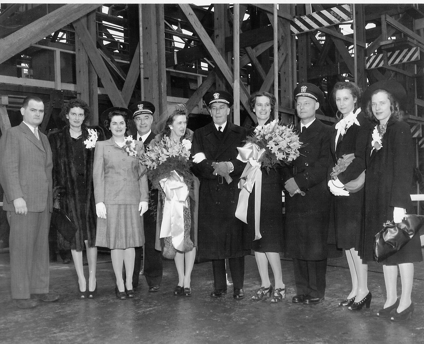 Launching party for LSM(R)-407 a.k.a. USS Chariton River. Among the dignitaries is U.S. Navy Rear admiral Jules James. Photo taken at Charleston Navy Yard, Charelston, S.C. on February 12, 1945.